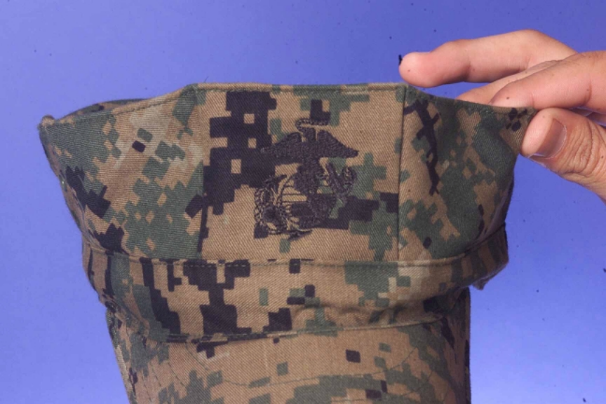 USMC eight-point cover, 2002